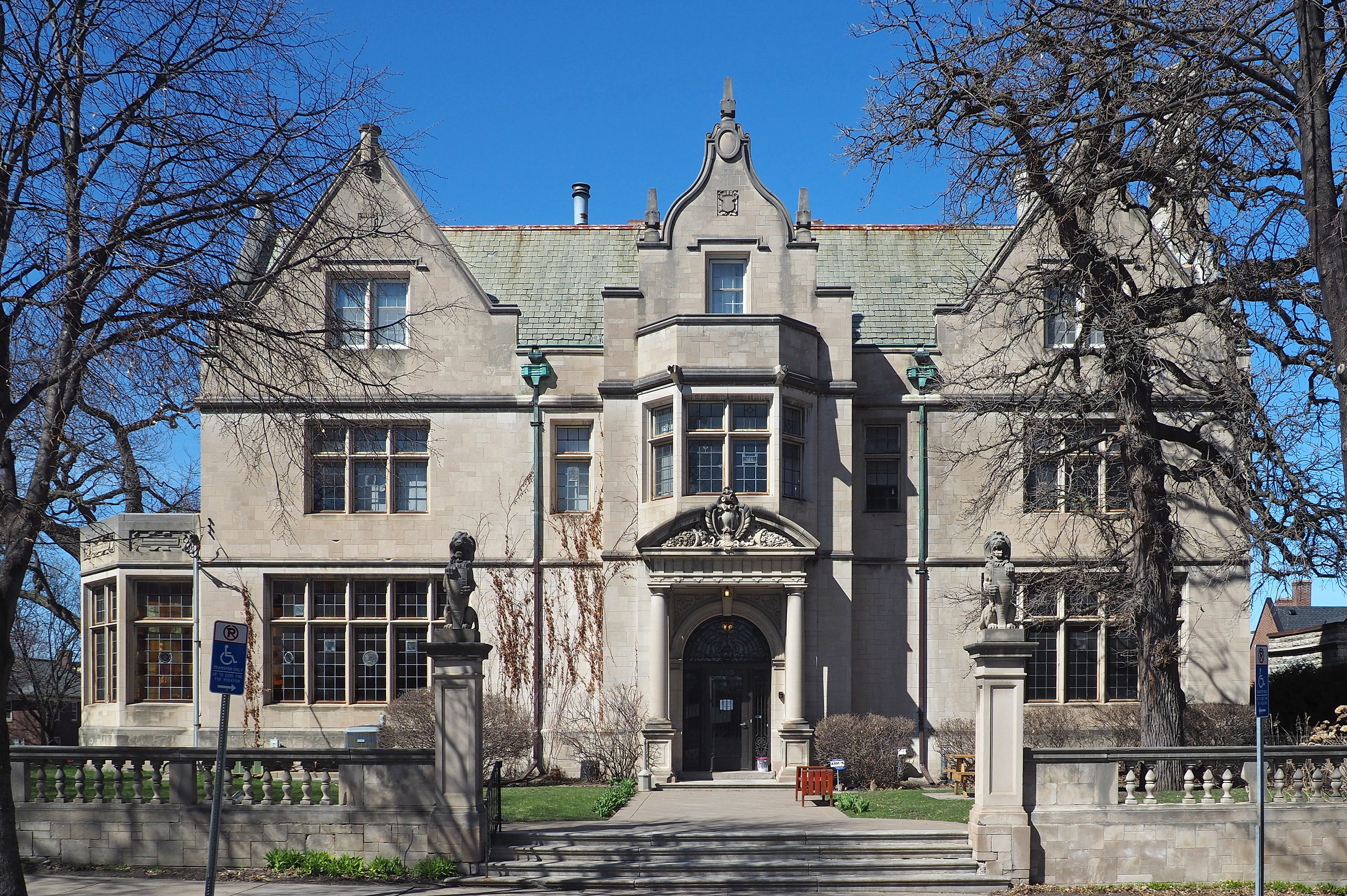 Charles S. Pillsbury House, 100 22nd St E, Minneapolis, Minnesota, USA. Viewed from the south. A contributing property to the Washburn-Fair Oaks Mansion District.